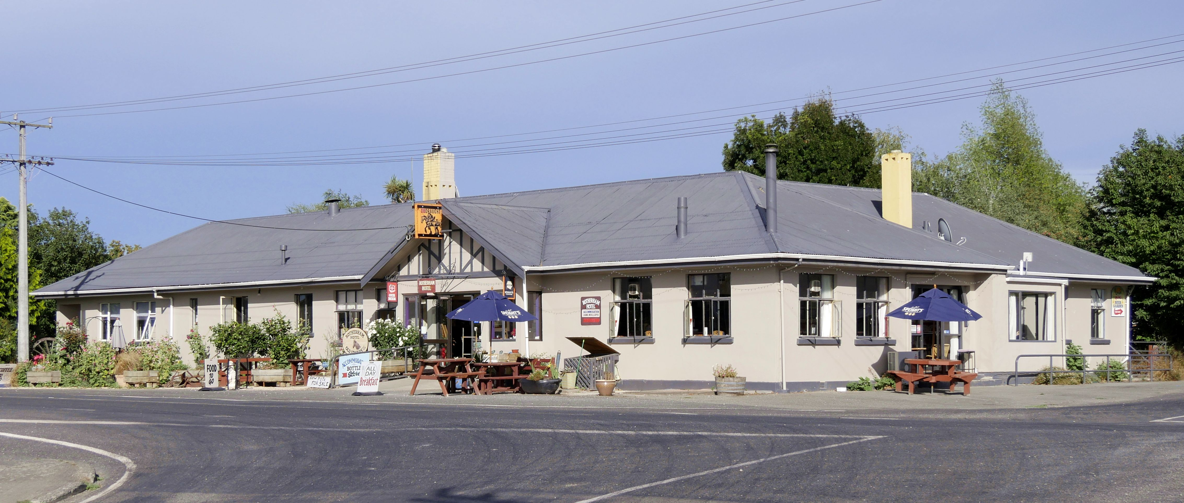 Rotherham Hotel, Rotherham, Hurunui District, Canterbury Region, South Island, Zew Zealand